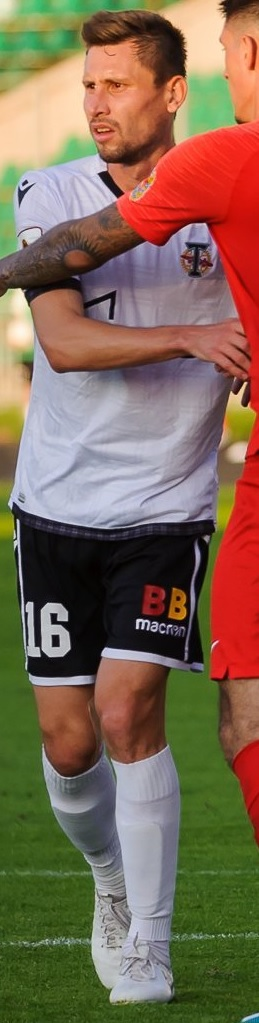 Maksim Shorkin with FC Torpedo Moscow in a game against FC Yenisey Krasnoyarsk.